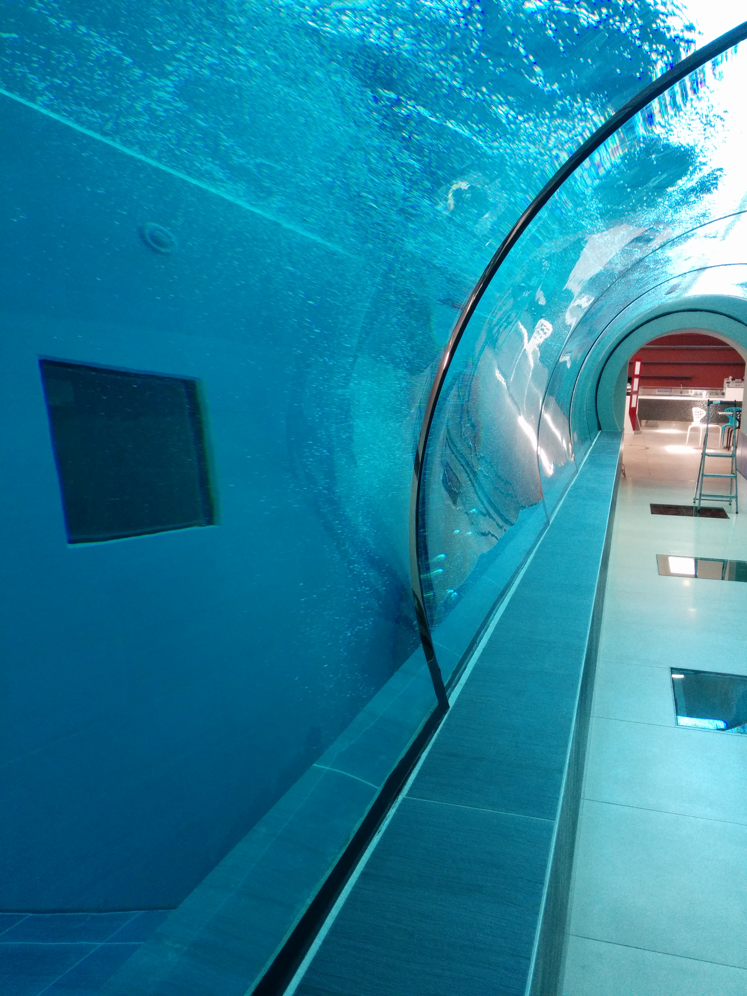 The tunnel through the Y-40 Pool at the Hotel Terme Millepini. Photo by Apnea Evolution Apnea Evolution Apnea-academy